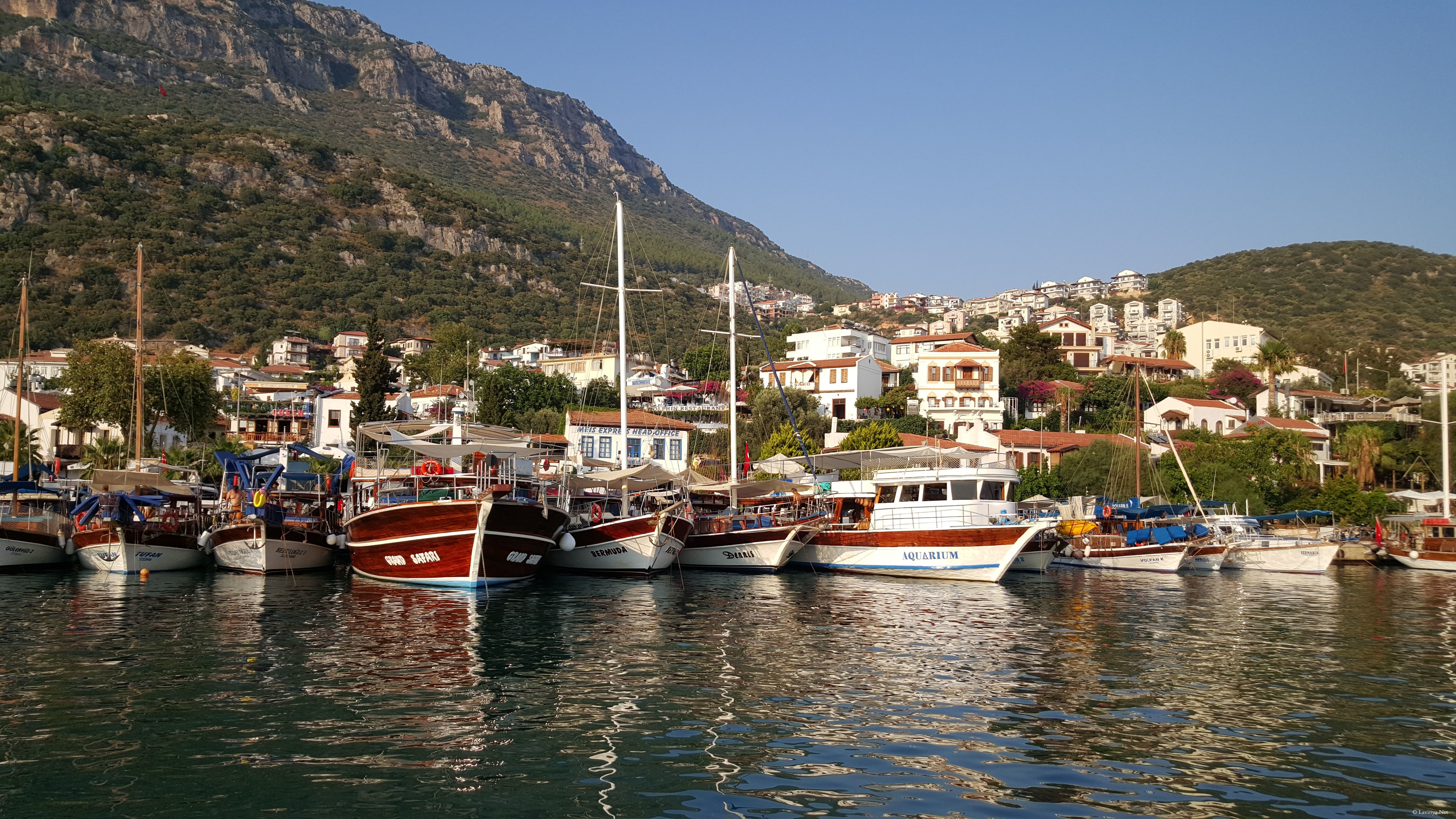 In August 2015, a view from the harbor in Kaş district.